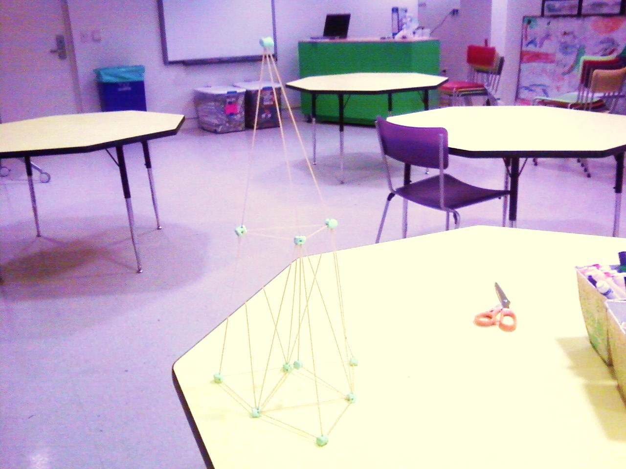 A pyramid made of marshmallows and uncooked spaghetti for demonstration purposes in the Michaelis Classroom at the Fresno Met. Picture has been digitally altered to further improve picture quality